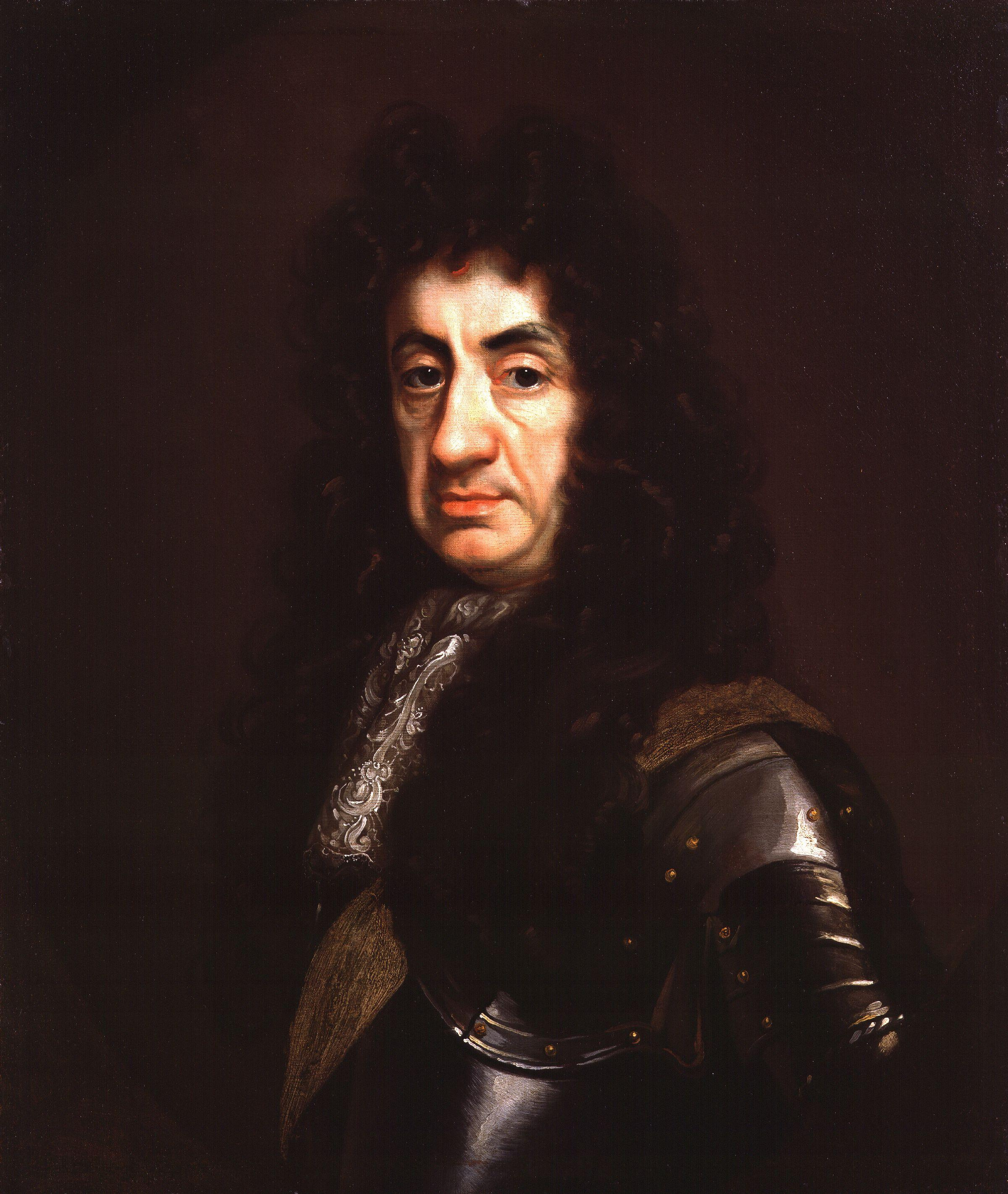 King Charles II, by John Riley (died 1691). All images in this batch have been confirmed as author died before 1939 according to the official death date listed by the NPG.